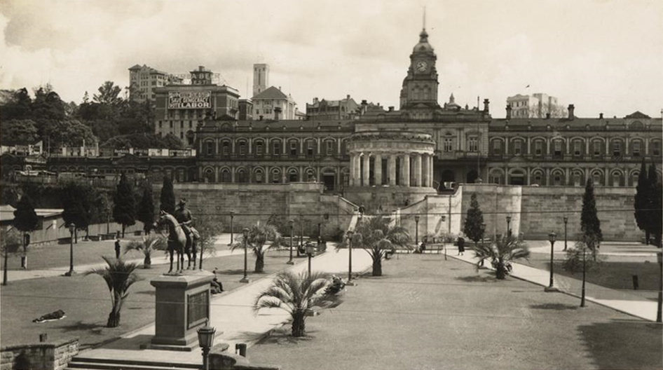 Queensland National Anzac and South African War Memorials, Brisbane, Australia. Circular memorial is The Shrine of Remembrance in Anzac Square, which has an eternal flame. The building in the background is Central Railway Station, featuring an ornate clock tower. Part of the Sidues series of postcards, no. 819.